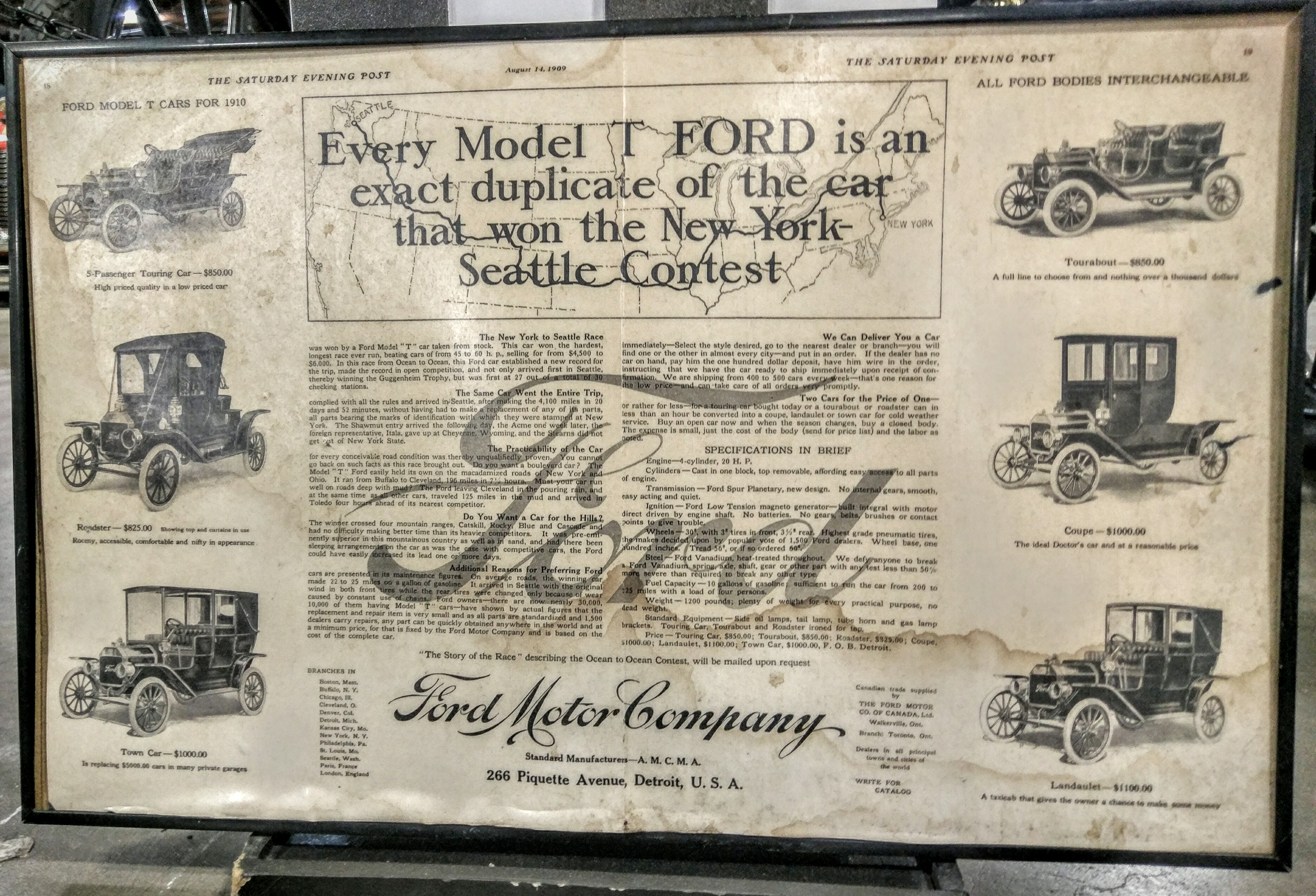 This two page advertisement appeared in the Saturday Evening Post on August 14, 1909. The ad is on display at the California Automobile Museum. Photo by Jim Heaphy.